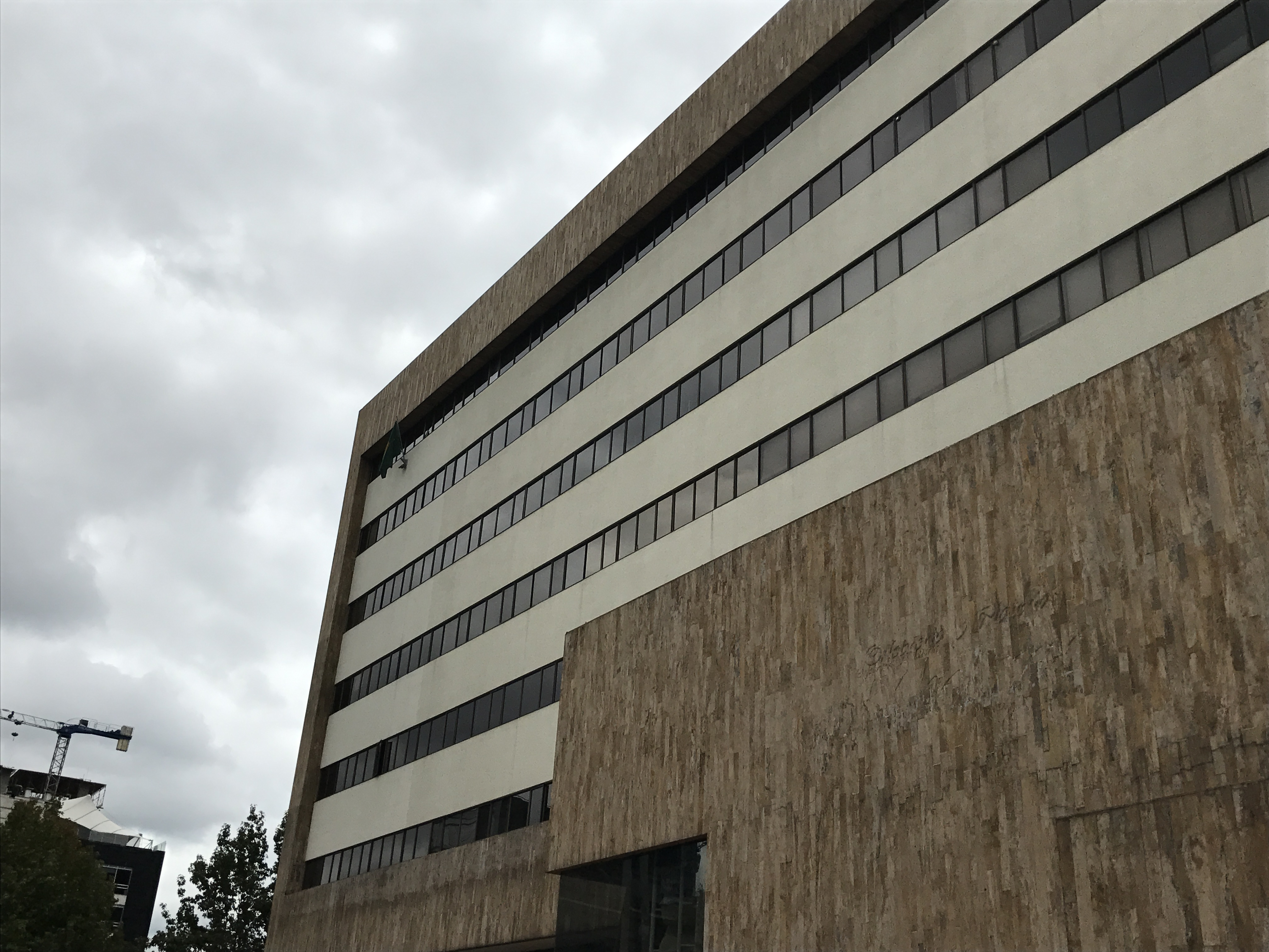 Embassy of Brazil in Bogota, Colombia